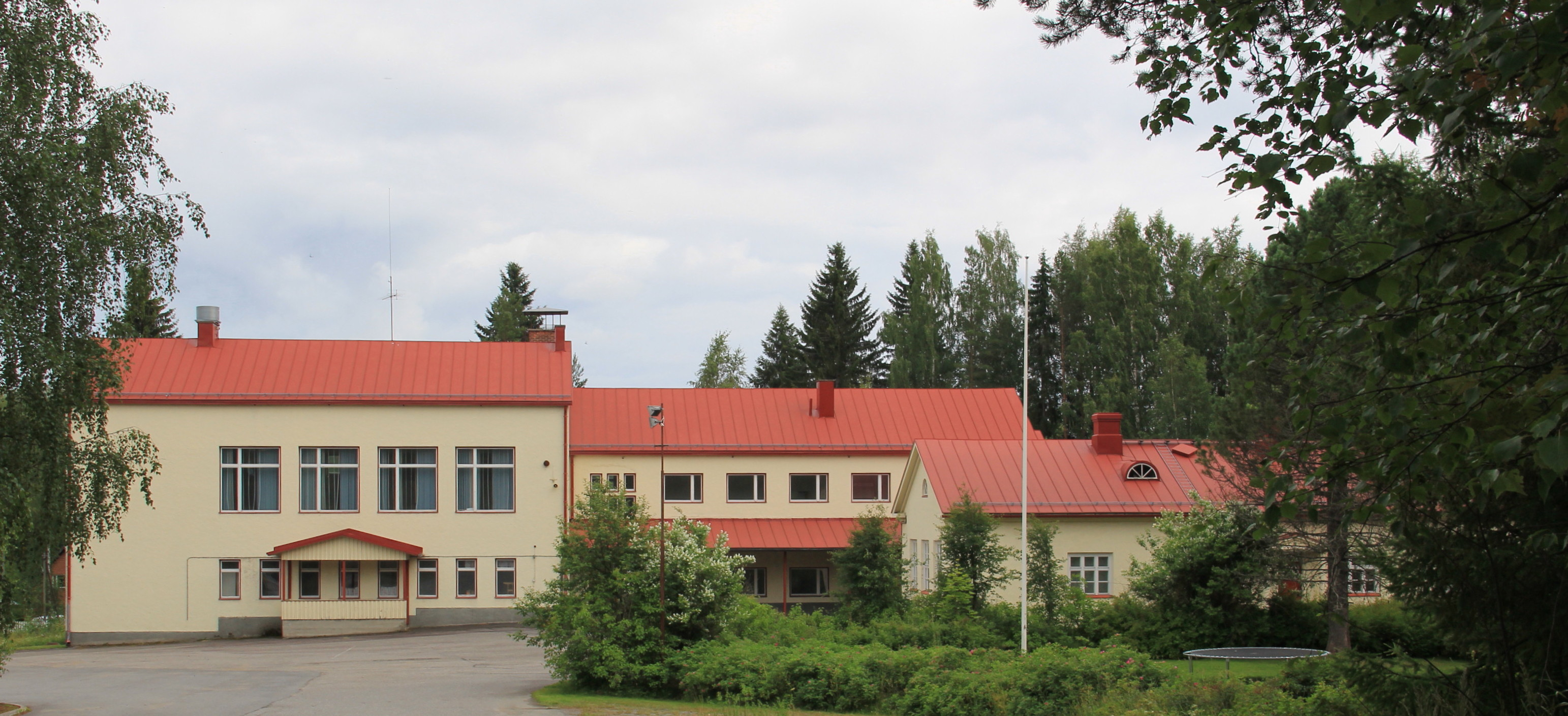 Lautasuo school, Ylämylly, Liperi, Finland.